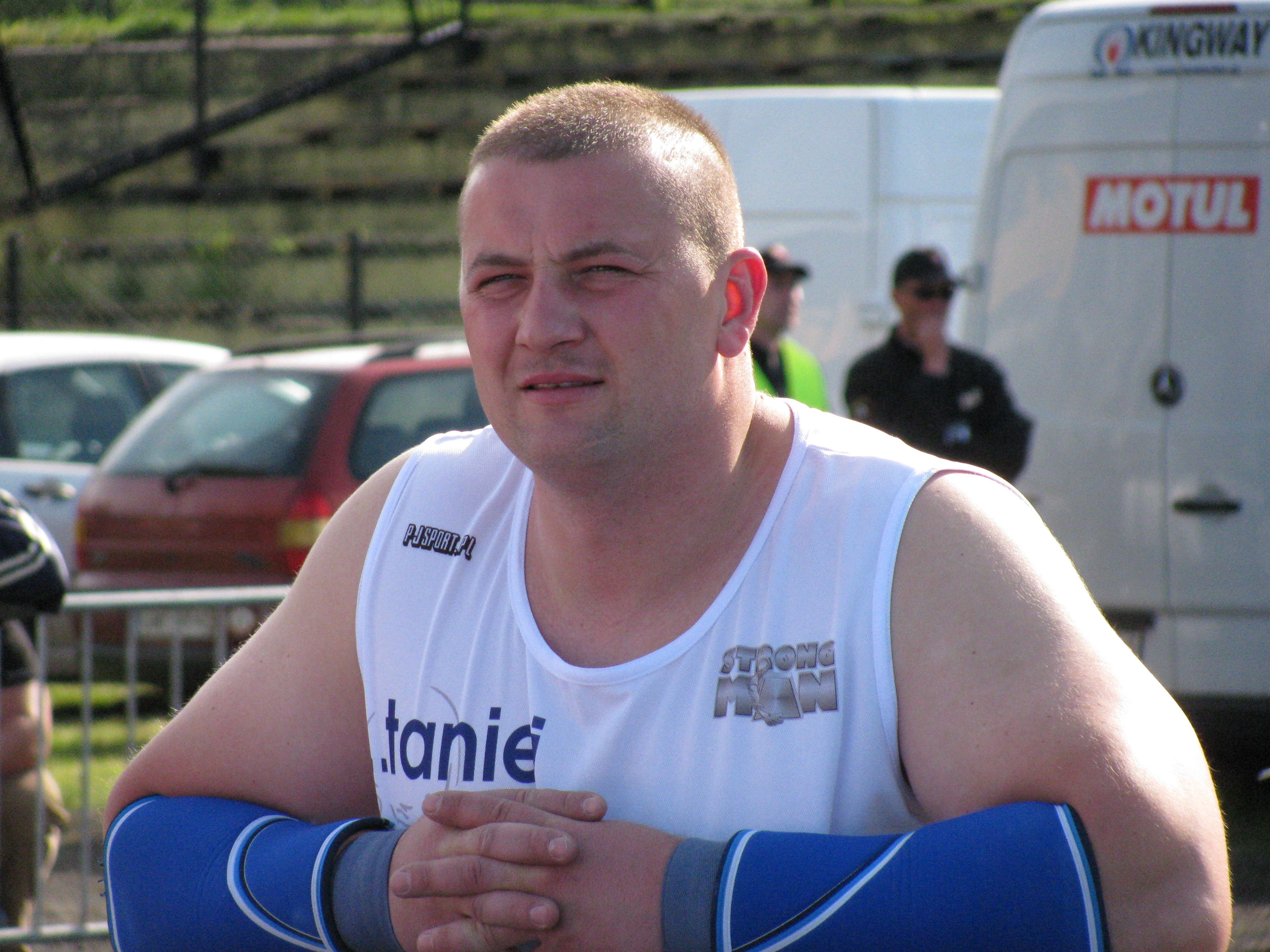 Tomasz Nowotniak - a strength athlete from Poland